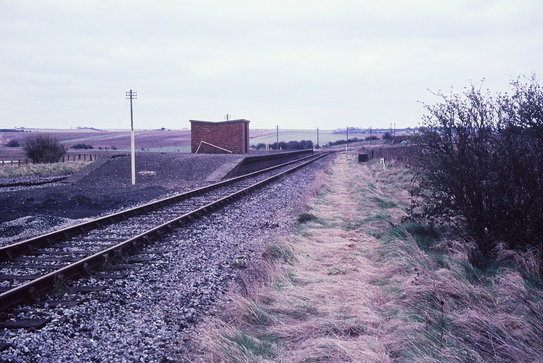 Looking westwards at Churn railway station towards the Moulsford-Ilsley road bridge.